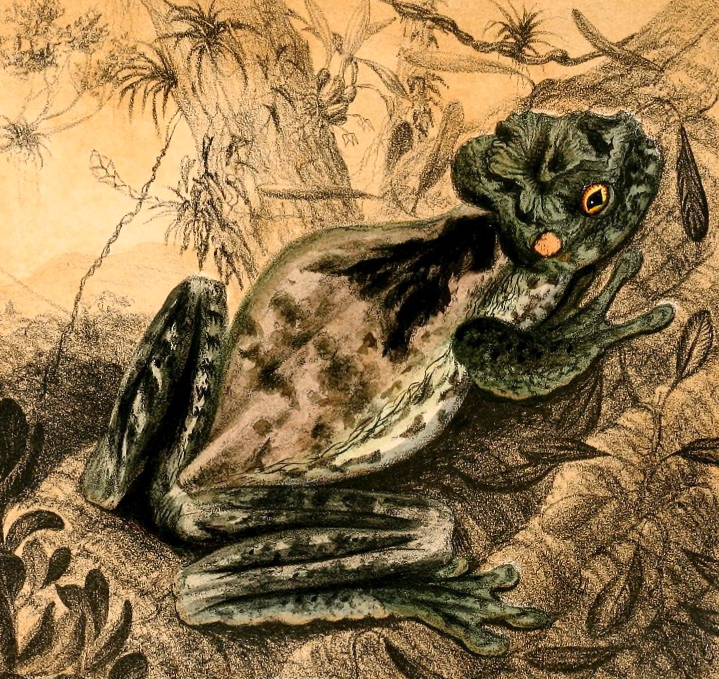 Trachycephalus lichenatus = Osteopilus crucialis (Jamaican Snoring Frog)